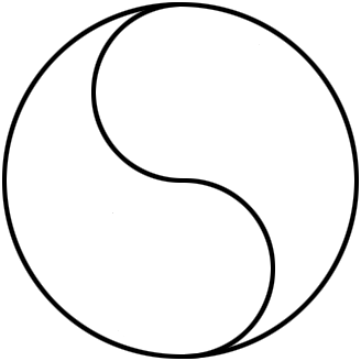 Taiji diagram Wuji - Taiji - Yin/yang - The four phenomena - Bagua (Trigrams) - Hexagrams